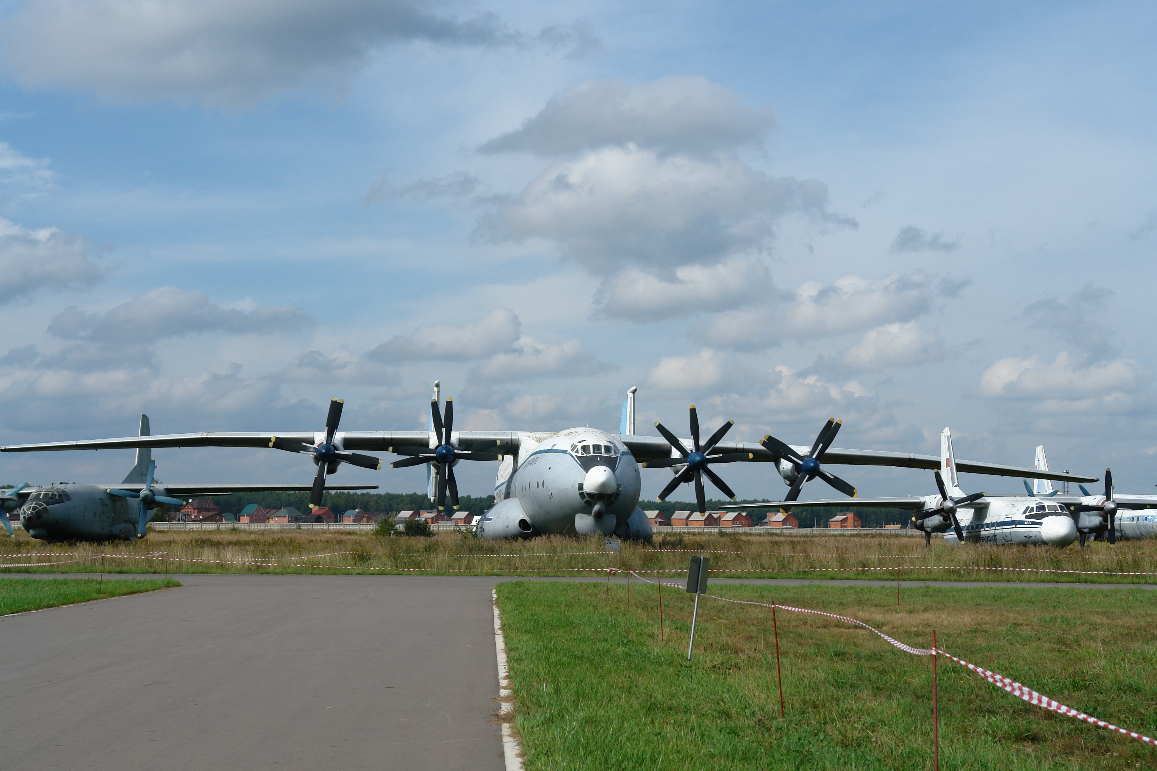 Antonov AN-22 (Cock) at Monino Central Air Force Museum (Moscow)